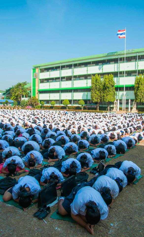 Senaprasit students in the city of Sena, Thailand.